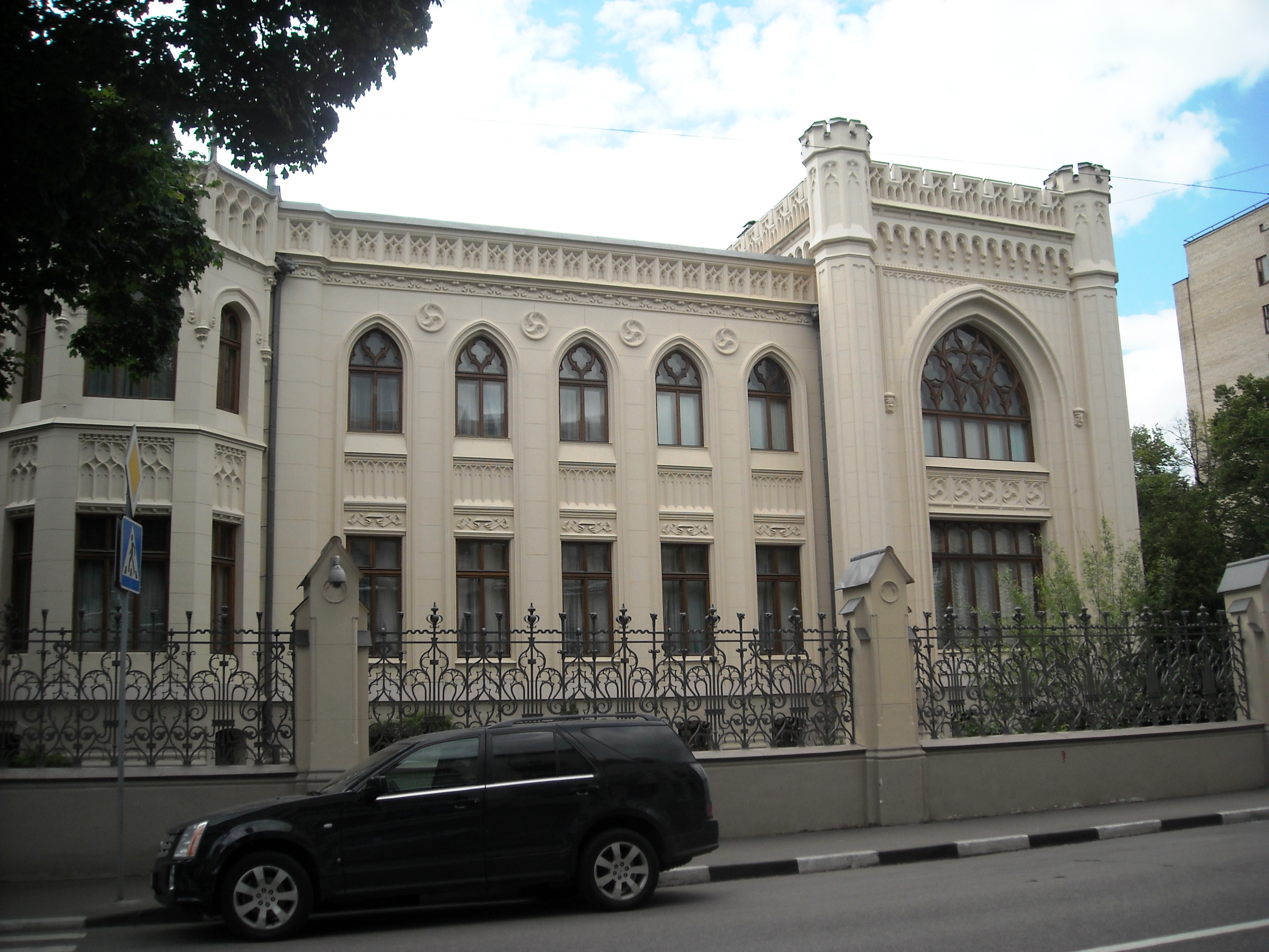 Savva Morozov